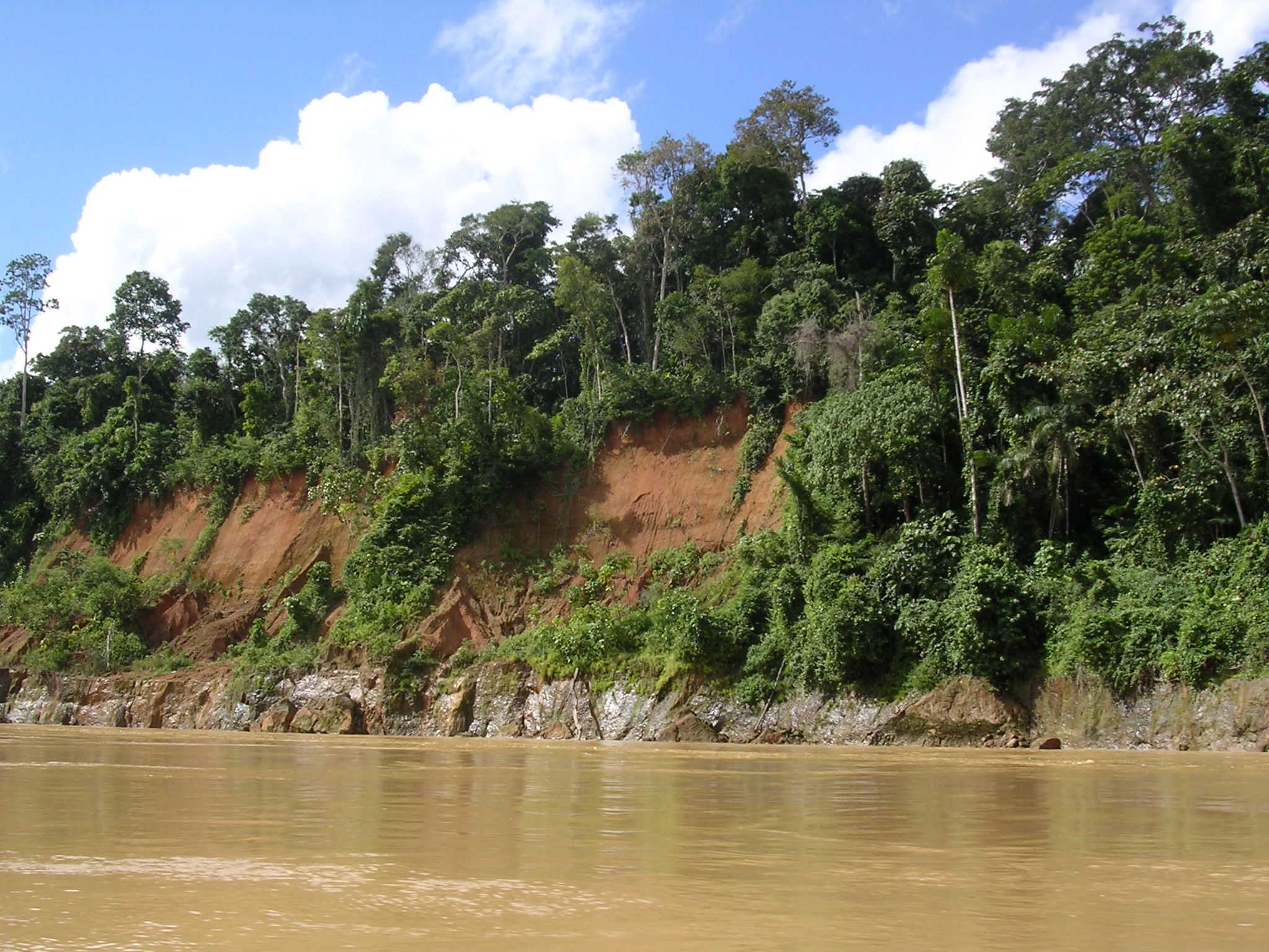 View of the upland tropical rain forests of Madre de Dios, Peru.